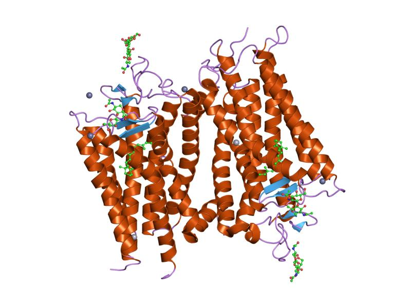 Cartoon representation of the molecular structure of protein registered with 1f88 code.